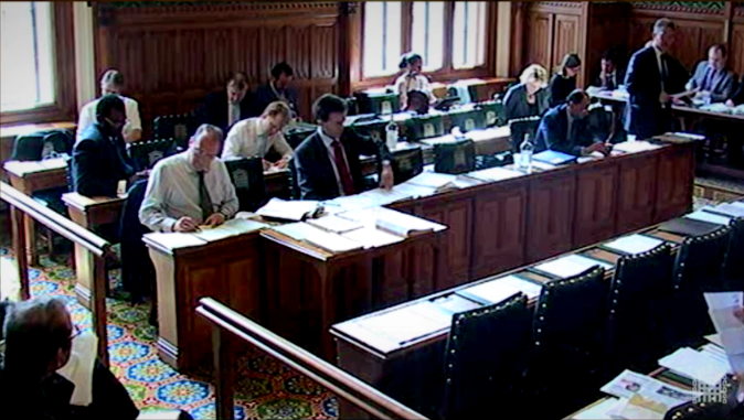 A public bill committee in the House of Commons, circa 2010-12